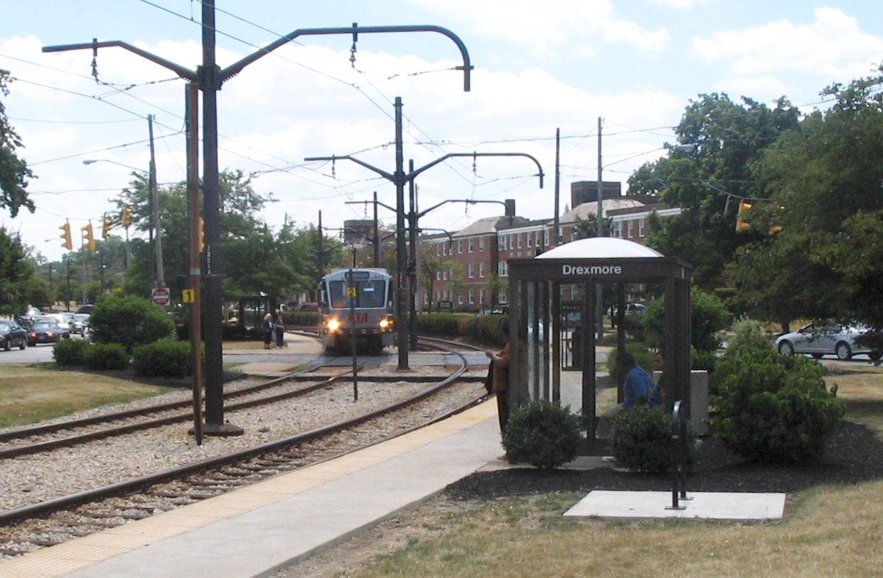 Drexmore station on the Blue Line of Cleveland RTA Rapid Transit